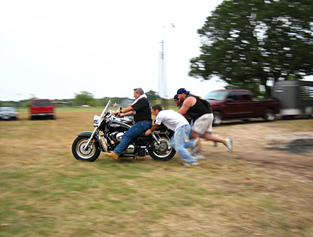 Attempting to push start the bike... unsuccessfully. Bump starting.